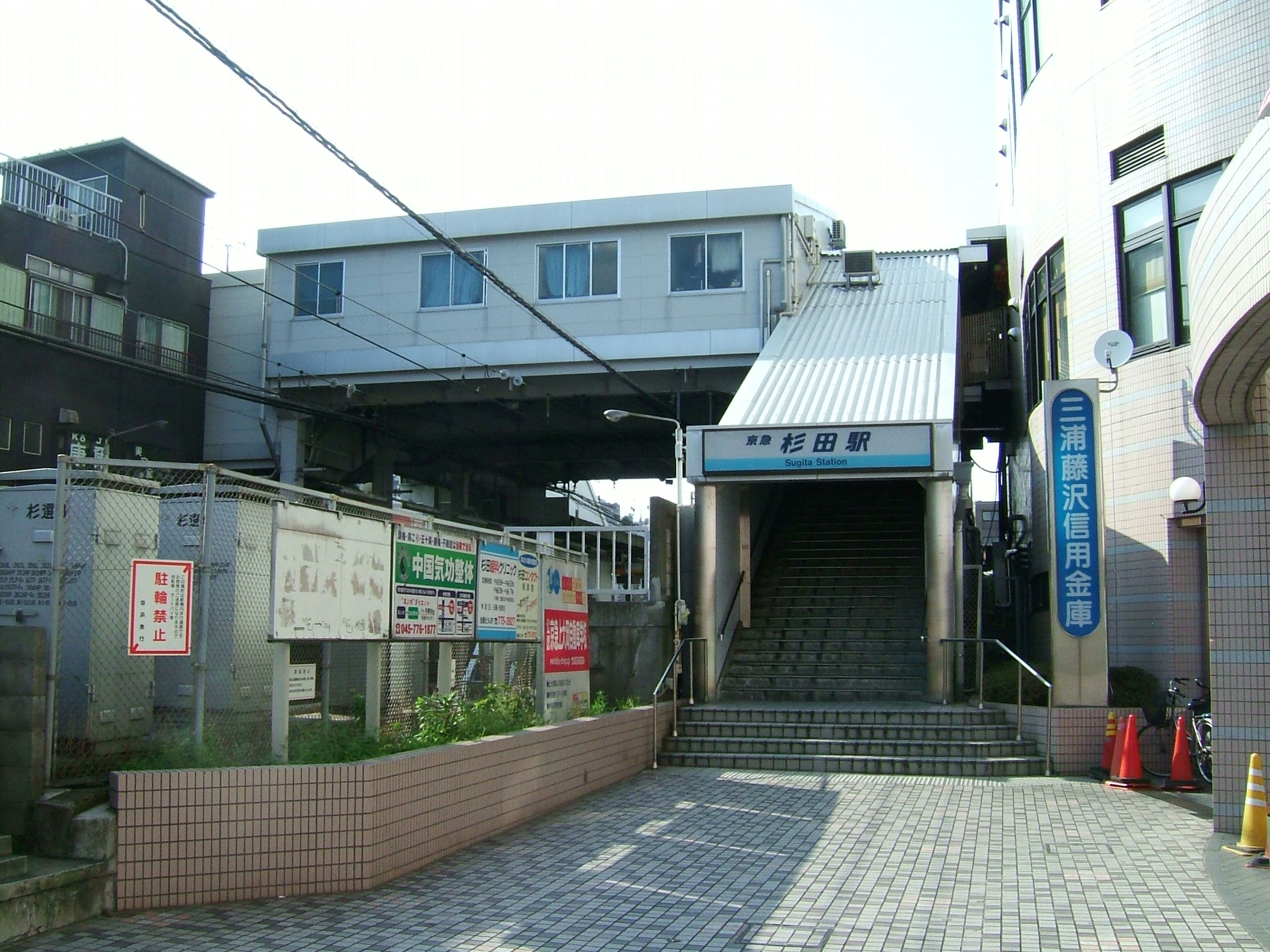 Sugita Station east side entrance (Keikyu Main Line)